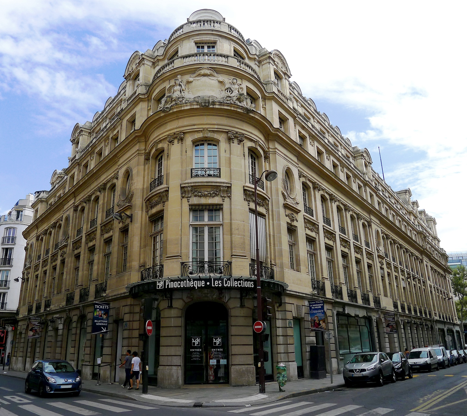 Pinacotech - Paris